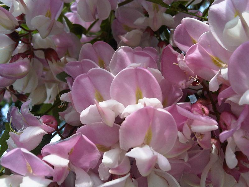 Robinia hispida flowers in London, England.